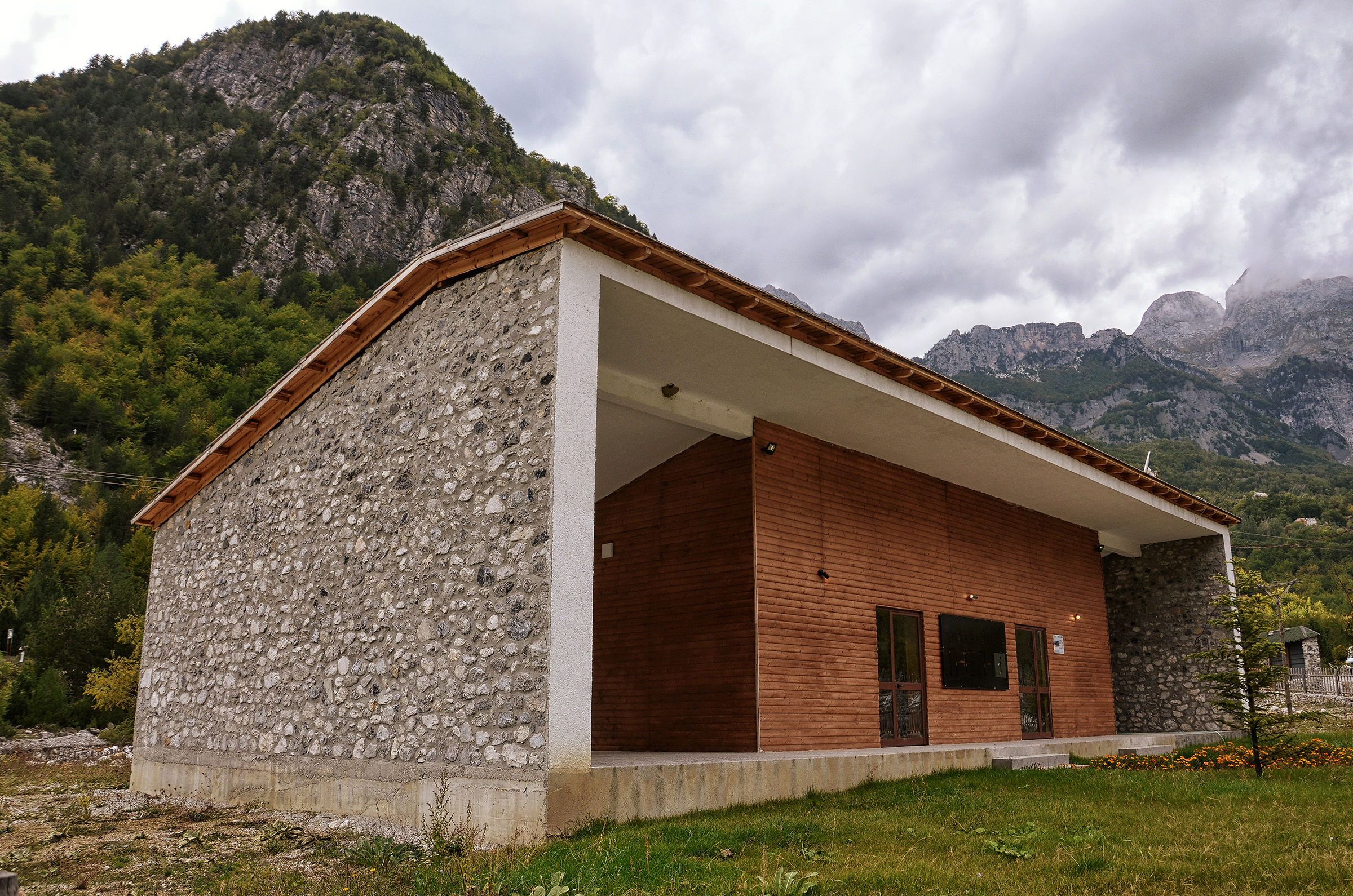 The visitor center of the Theth National Park